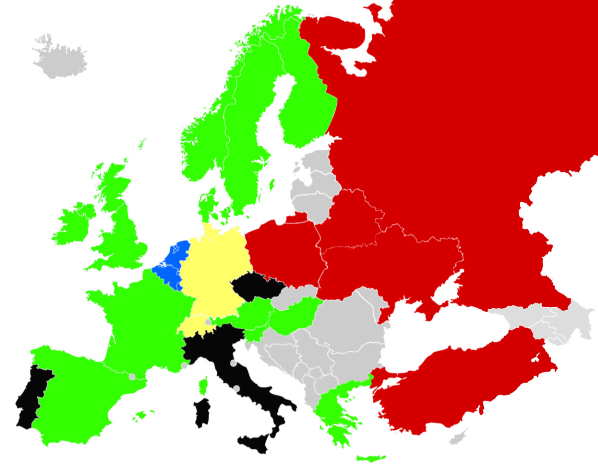 Euthanasia in Europe: Blue: Active euthanasia legal Yellow: Assisted suicide legal Green: Passive euthanasia legal Red: No legal form of euthanasia / Any form of euthanasia prohibited Black: Ambiguous legal situation Grey: No data